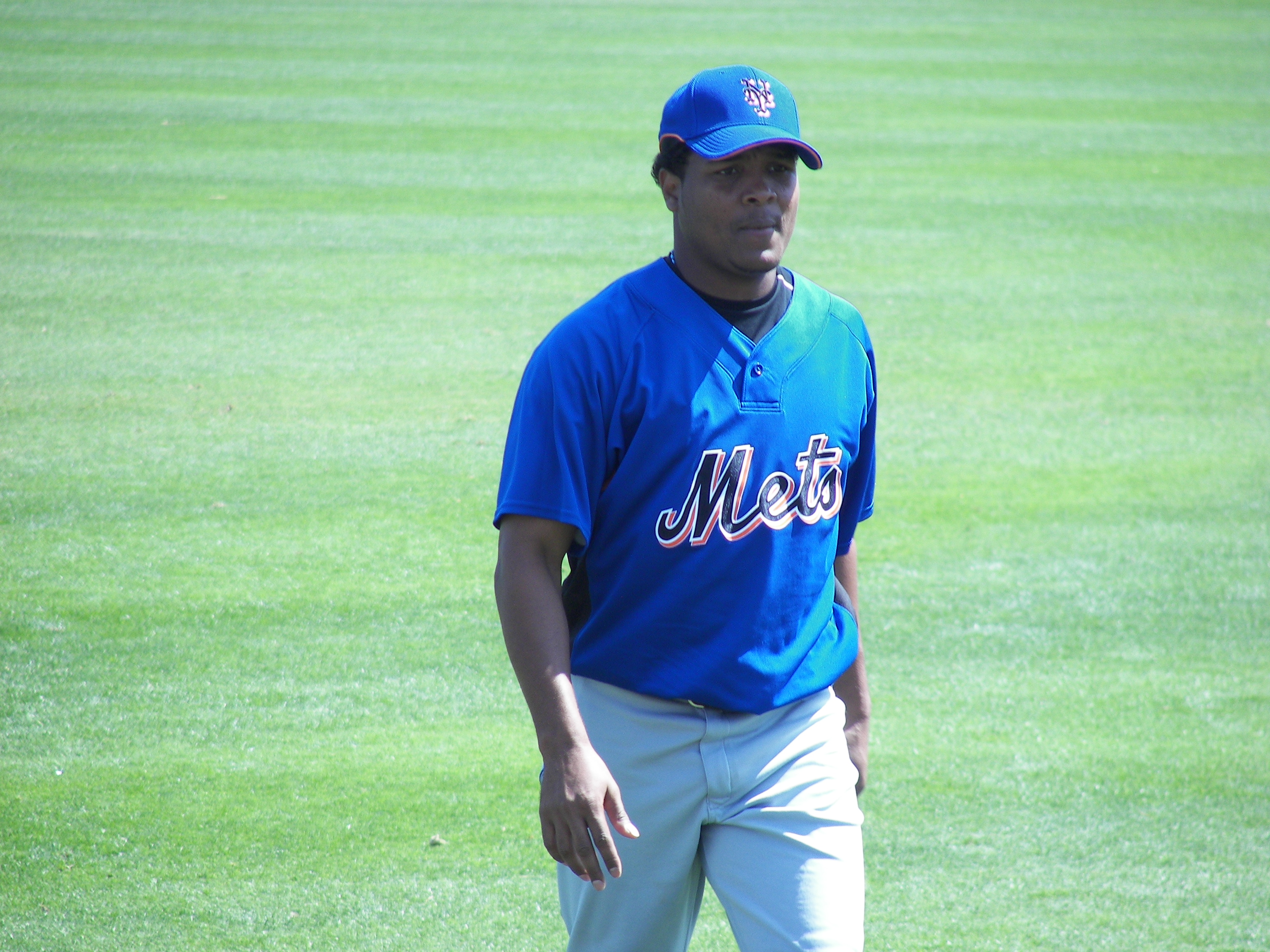 New York Mets infielder Anderson Hernández before a Mets/Detroit Tigers spring training game at Joker Marchant Stadium in Lakeland, Florida.